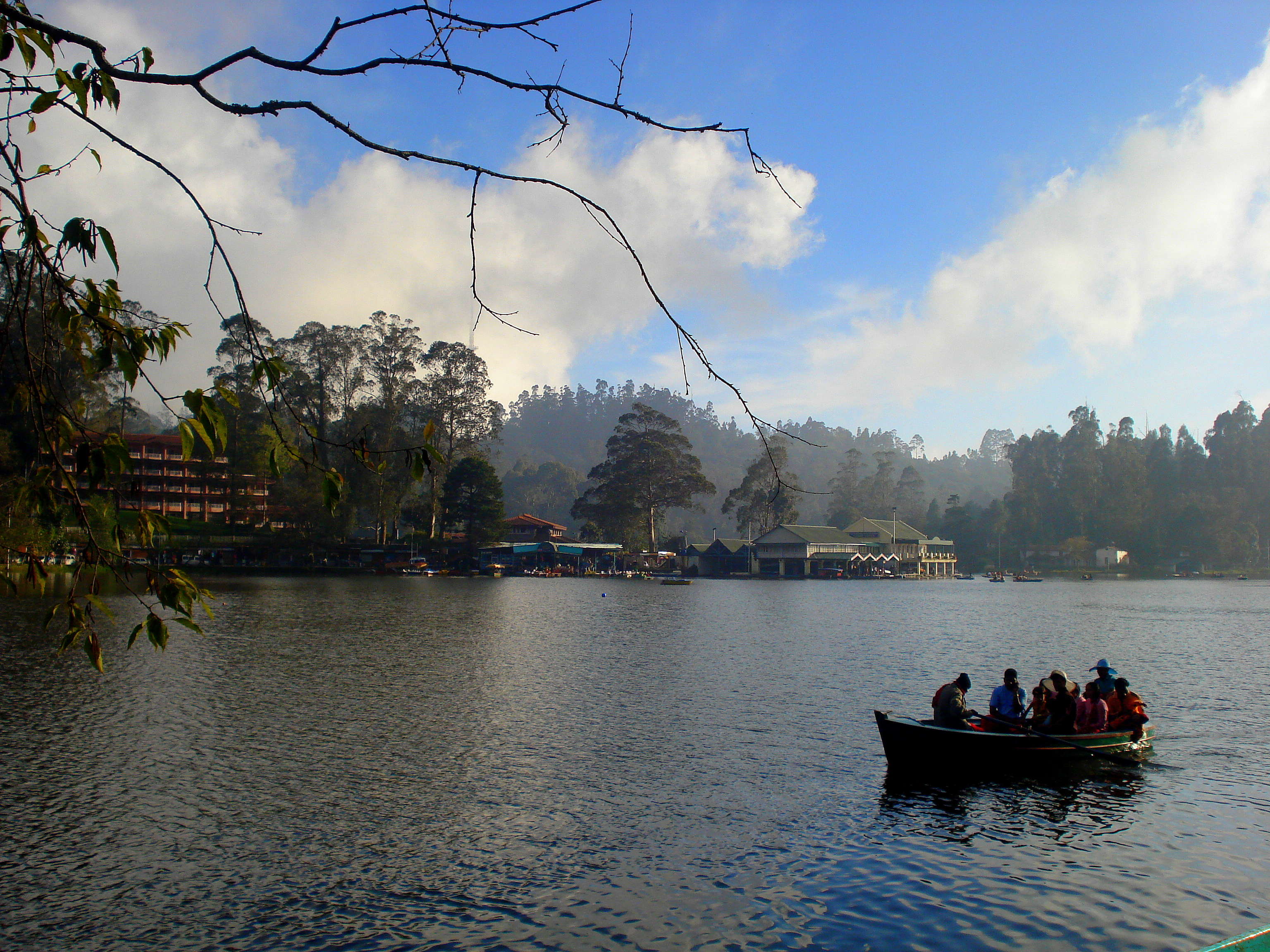 Kodai lake in Kodaikanal